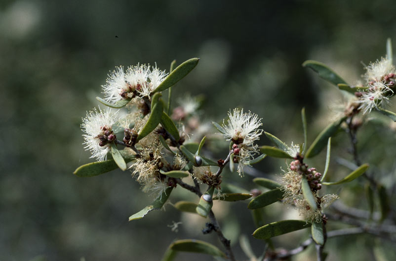 Melaleuca acacioides flowers, near Karumba, Queensland